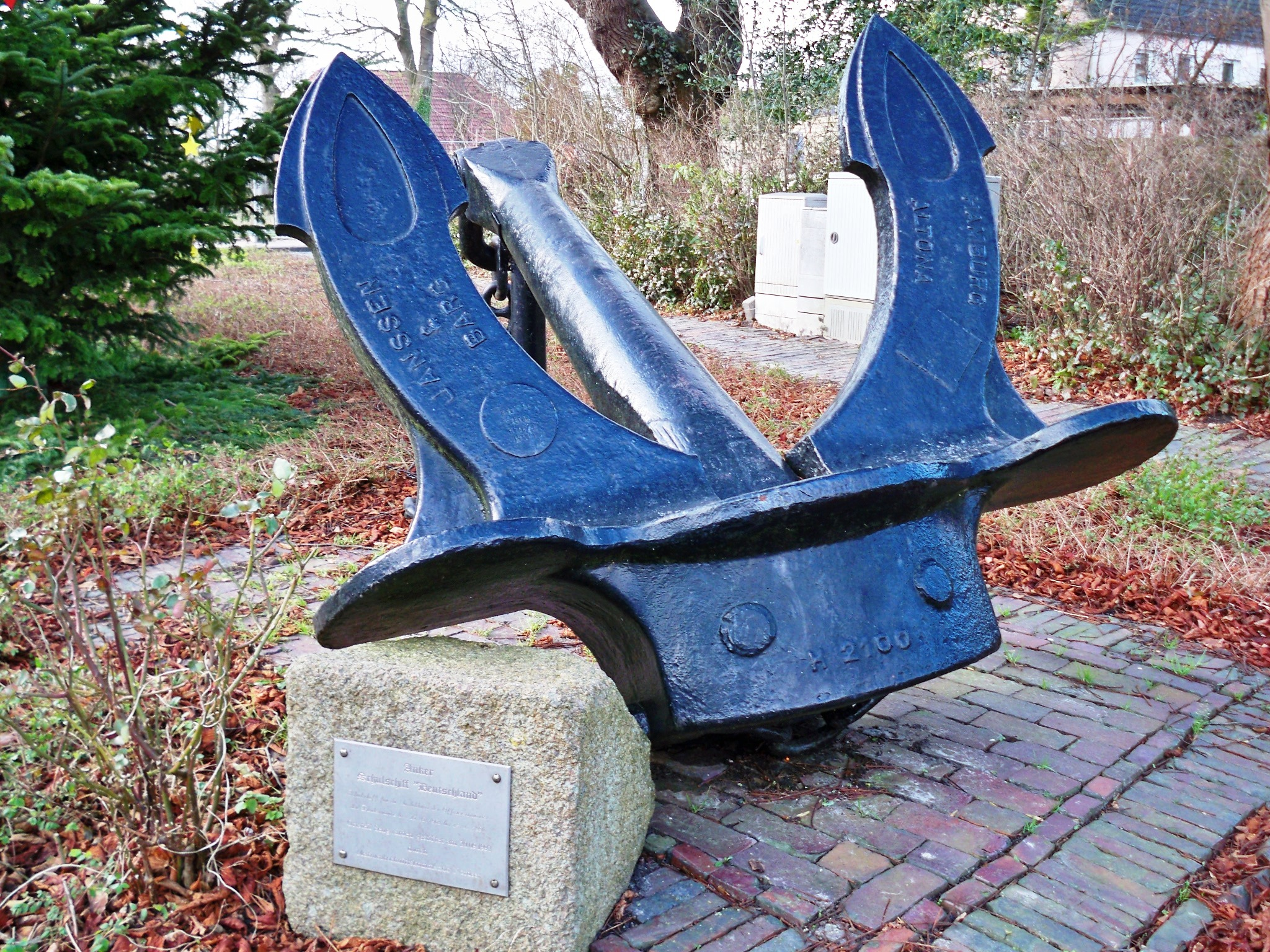 Anchor of former naval training ship Deutschland, now placed in Sengwarden (near Wilhelmshaven)